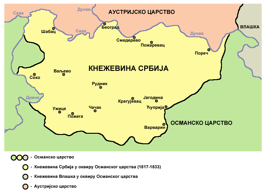 Principality of Serbia in 1817.